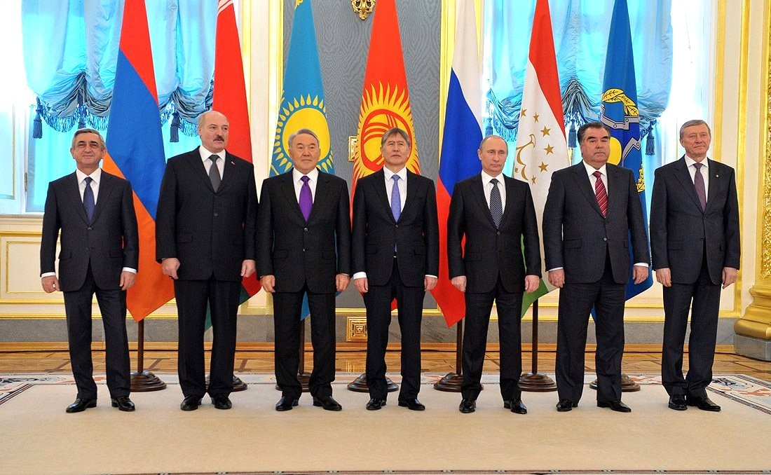 CSTO Collective Security Council meeting in the Kremlin, Moscow 2012-12-19. President of Belarus Alexander Lukashenko, President of Kazakhstan Nursultan Nazarbayev, President of Kyrgyzstan Almazbek Atambayev, President of Russia Vladimir Putin, President of Tajikistan Emomali Rahmon, and CSTO Secretary-General Nikolai Bordyuzha.